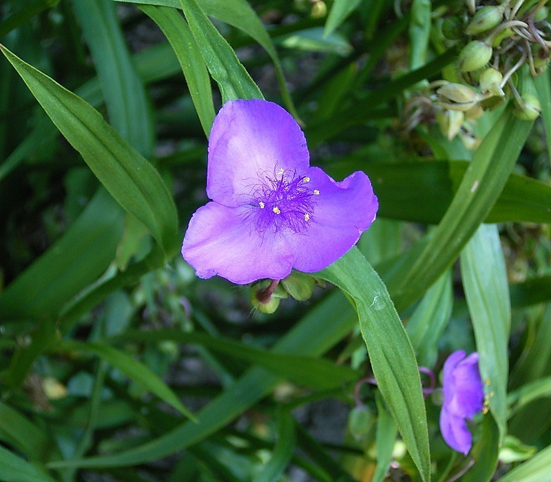 Tradescantia virginiana (note the hairs on the sepals)